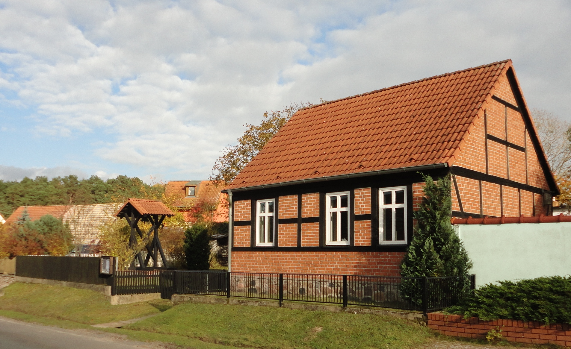 South-western view of Zootzen church, city of Fürstenberg/Havel, Oberhavel district, Brandenburg state, Germany